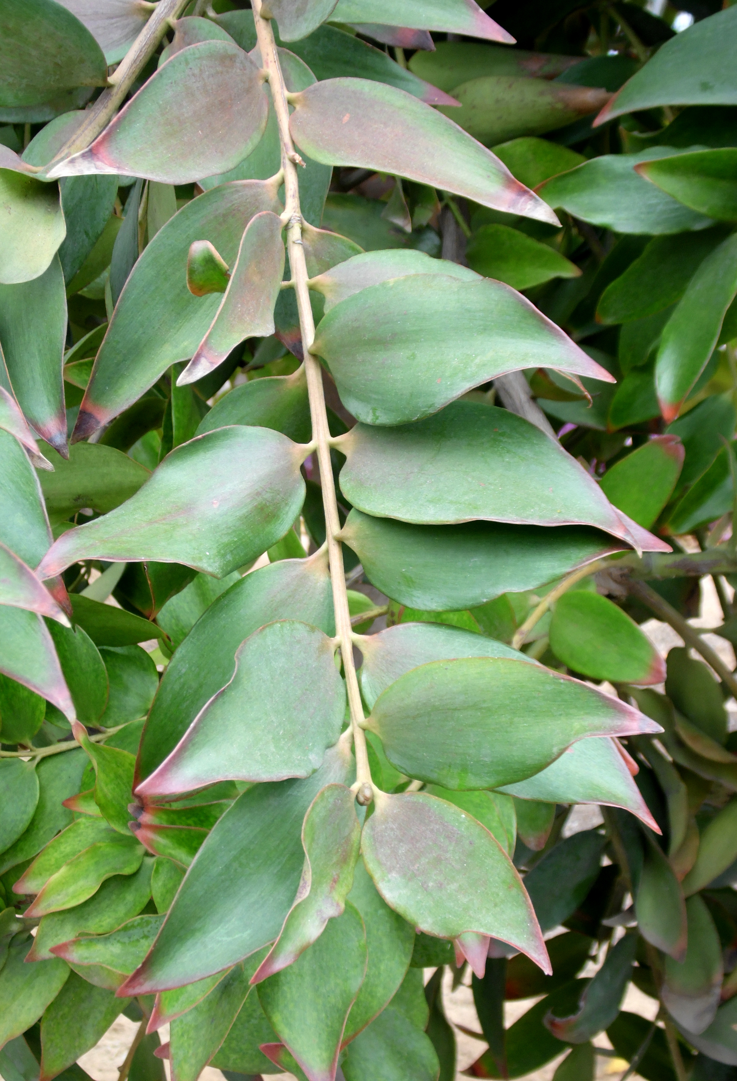 Agathis australis in Parque Botánico de Maspalomas (Gran Canaria). Leaves